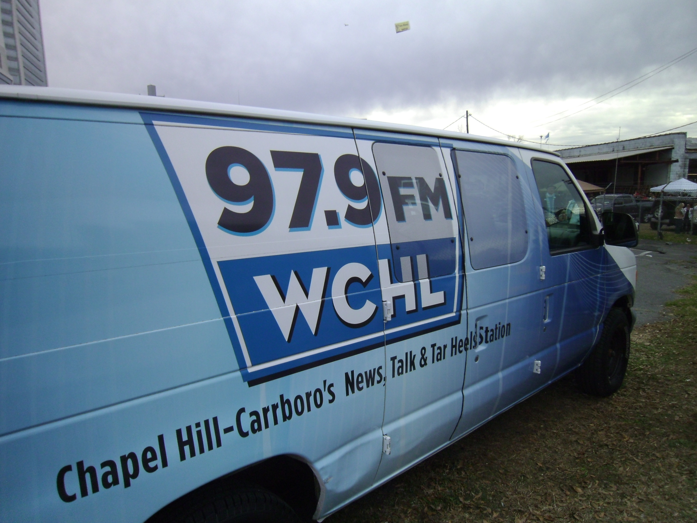 A broadcast van for WCHL in Chapel Hill, flagship of the Tar Heel Sports Network, at the 2013 Belk Bowl